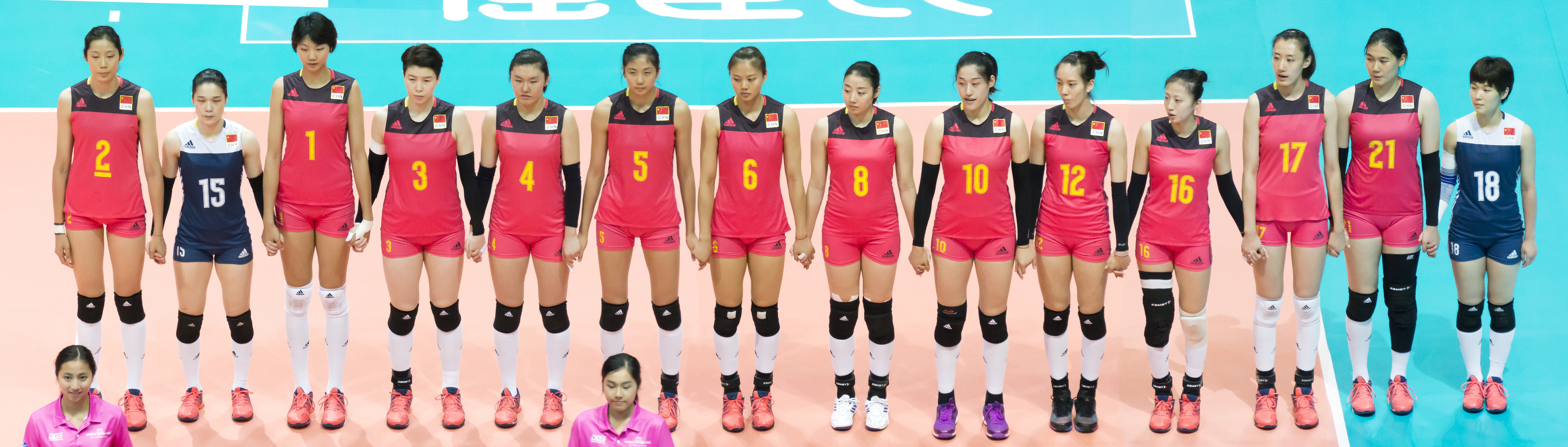 China team 1. XINYUE YUAN袁心玥 2. TING ZHU朱婷 3. JING LI 4. JINGWEN QIAN 5. YI GAO高意 6. XIANGYU GONG龚翔宇 8. DI YAO 姚廸 10. XIAOTONG LIU刘晓彤 12. YIXIN ZHENG 15. LI LIN林莉 16. XIA DING丁霞 17. YUANYUAN WANG 18. MENGJIE WANG 21. YUNLU WANG